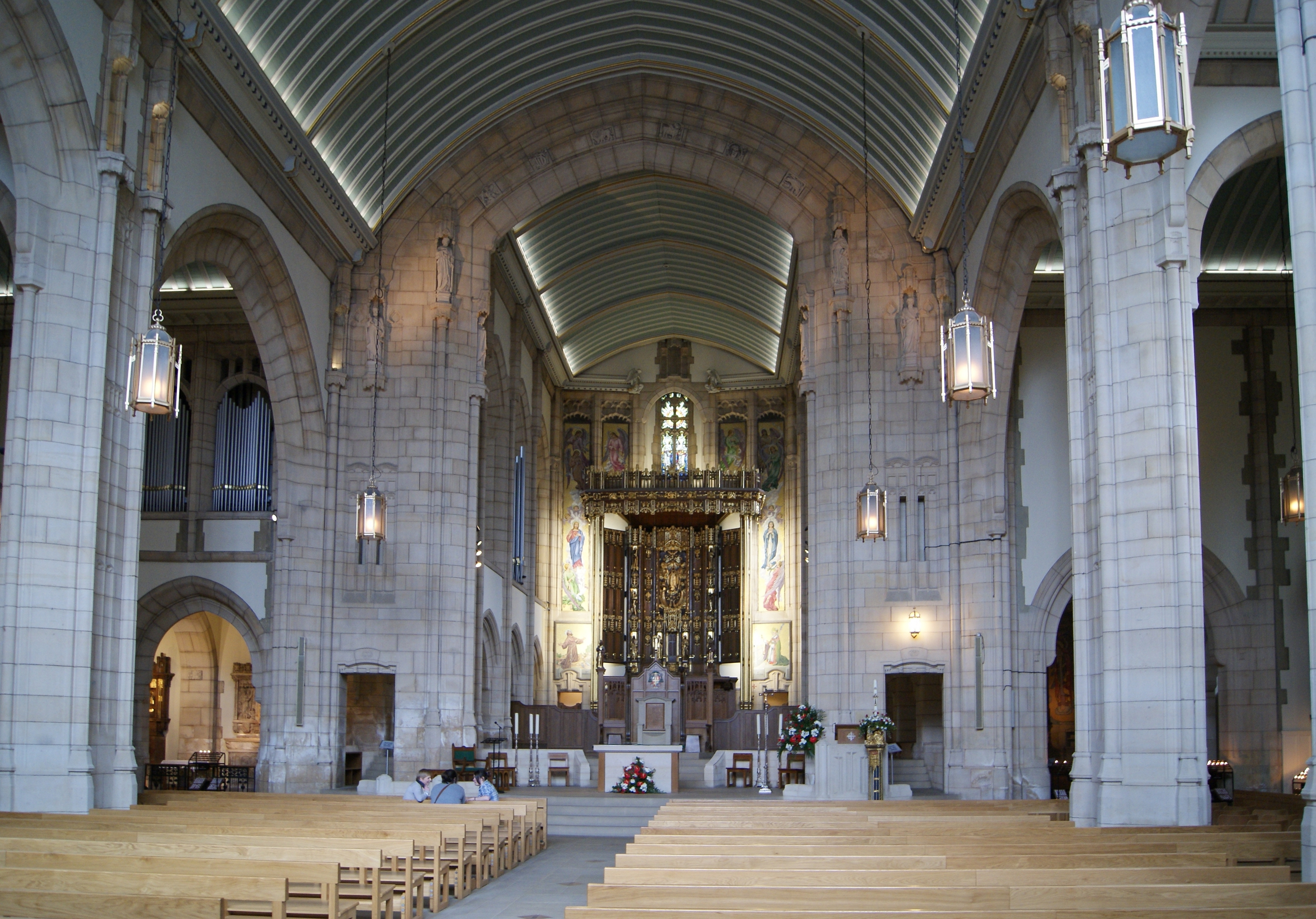 The interior of St Anne's Cathedral, Leeds, looking from the back to the front. Despite its small size it seems quite spacious inside, which surprised me, having never been inside before. Taken on the afternoon of Tuesday the 4th of May 2010.